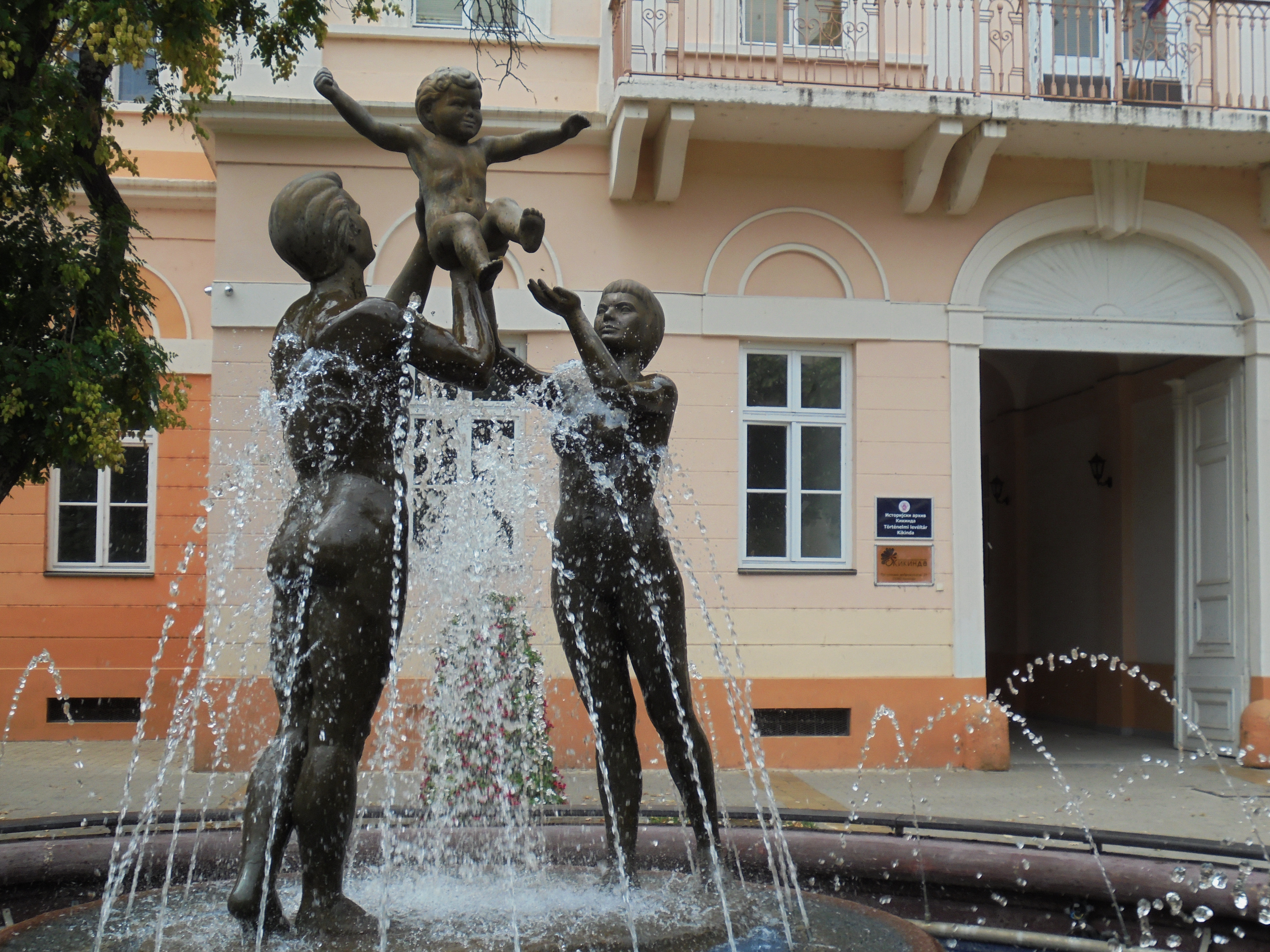 Sculpture Family, made by academic sculptor Slobodan Kojić. It is placed at Kikinda's city square.